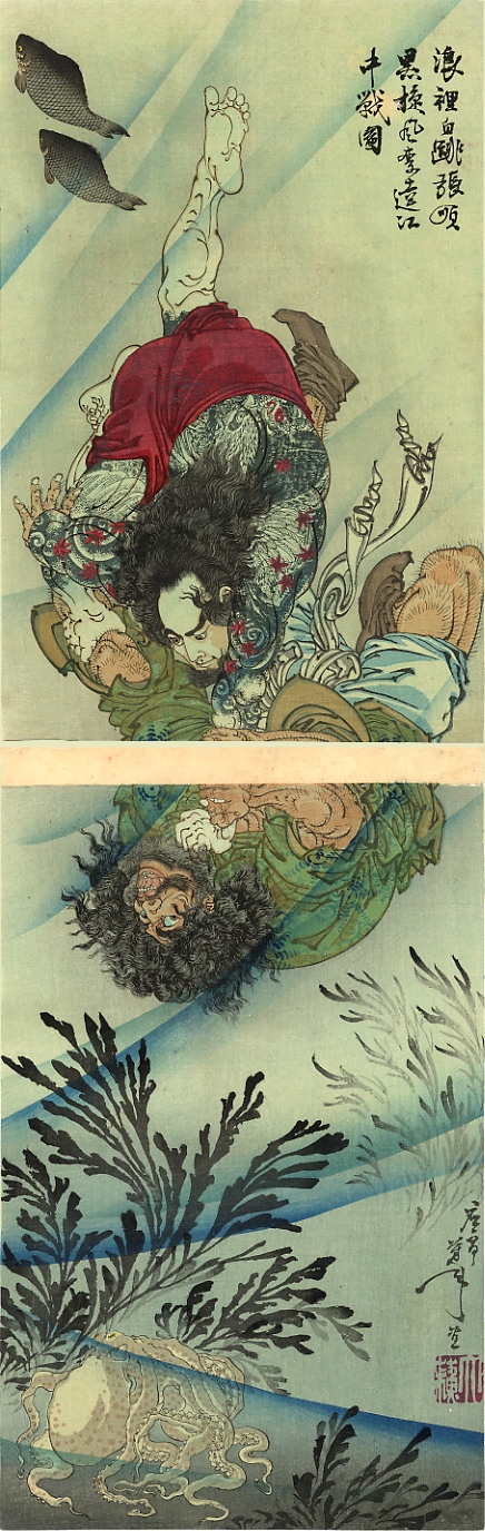 "The Underwater Fight", a block print created by Yoshitoshi in 1887. It depicts a battle between Li Kuei and Chang Shun, two heroes from The Water Margin.